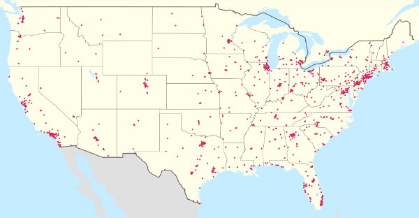 Image from